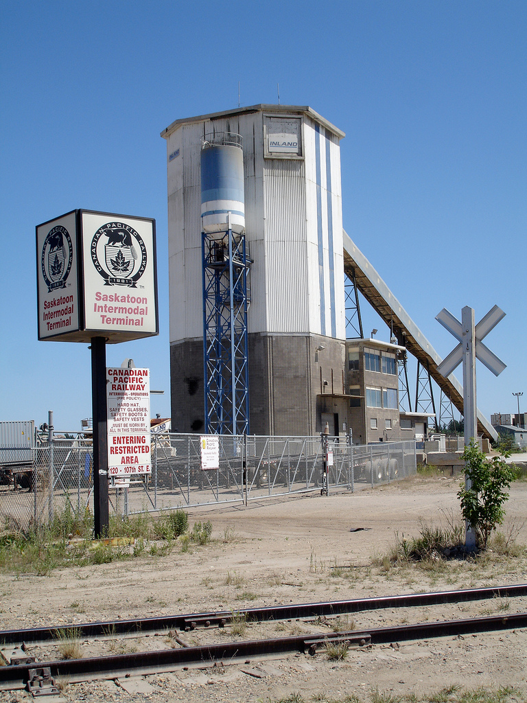 Entrance to the Saskatoon Intermodal Terminal, a railyard facility owned by the Canadian Pacific Railway. It is located in the Sutherland Industrial neighbourhood of Saskatoon, Saskatchewan, Canada.